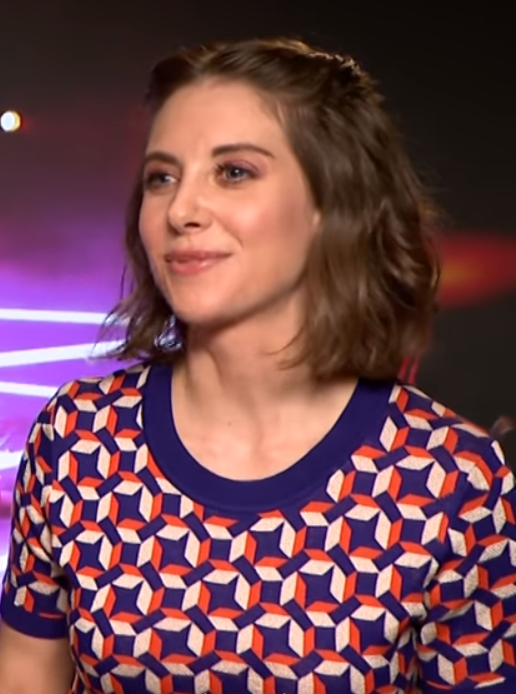 Alison Brie and Betty Gilpin reveal their most embarrassing moments on set in a hilarious game of NEVER HAVE I EVER! So if you’ve ever wondered: yes, big wrestling moves do lead to big farts. These actors have suffered for their art.